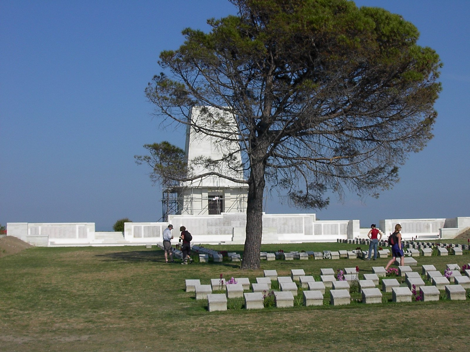 Photograph of The Australian memorial and cemetery at Lone Pine, Gallipoli.